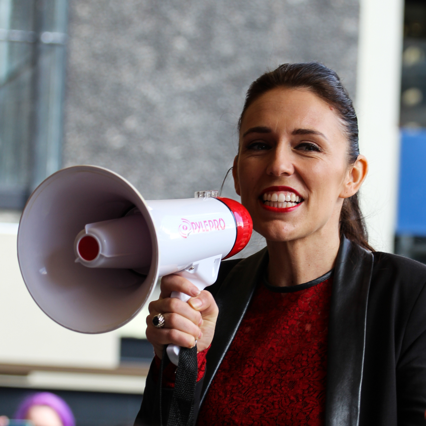 Jacinda Ardern, leader of the NZ Labour party, was at the University of Auckland Quad on the first of September, 2017.